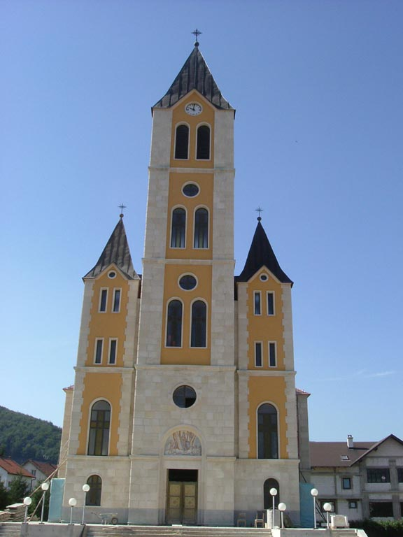 Virgin Mary Assumption church in Uskoplje